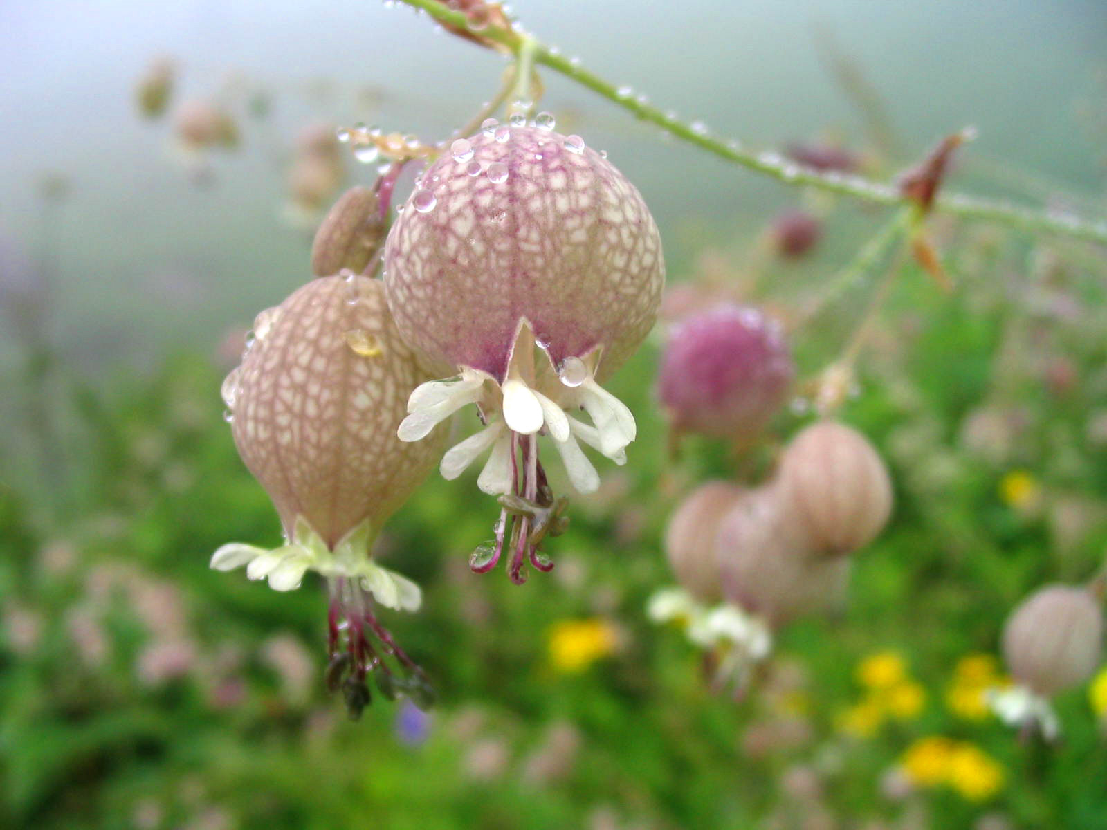 Photo taken by Pankaj Batra, New Delhi India on his trip to Valley of flowers. The beauty of this photo is that a rain drop just fell on the Silene-flower you can see small droplets rolling off as a result. Photo taken via Canon powershot A70. Tv( Shutter Speed ) 1/320 Av( Aperture Value ) 2.8 Metering Mode Evaluative